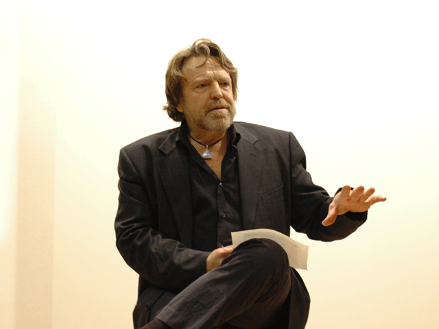 John Perry Barlow lecturing at European Graduate School, Saas-Fee, Switzerland. Tenth Anniversary of The Declaration of the Independence of Cyberspace. (European Graduate School, May 29, 2006, ) Image description page is (was) here